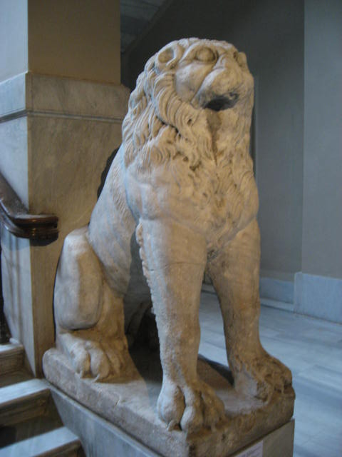 Left lion statue from the monumental gate of Bucoleon Palace. Made out of marble, late Roman, early Byzantine period. Inv. 914 T, Mendel Cat. 142.